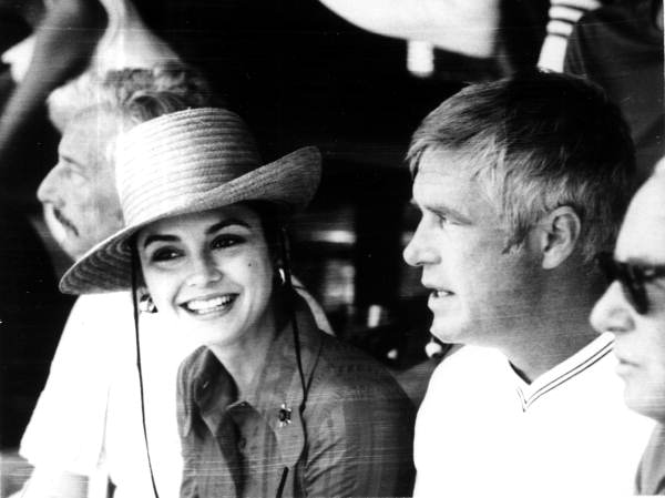 Actors George Peppard and Victoria Principal in Fort Lauderdale, Florida. State Library and Archives of Florida.